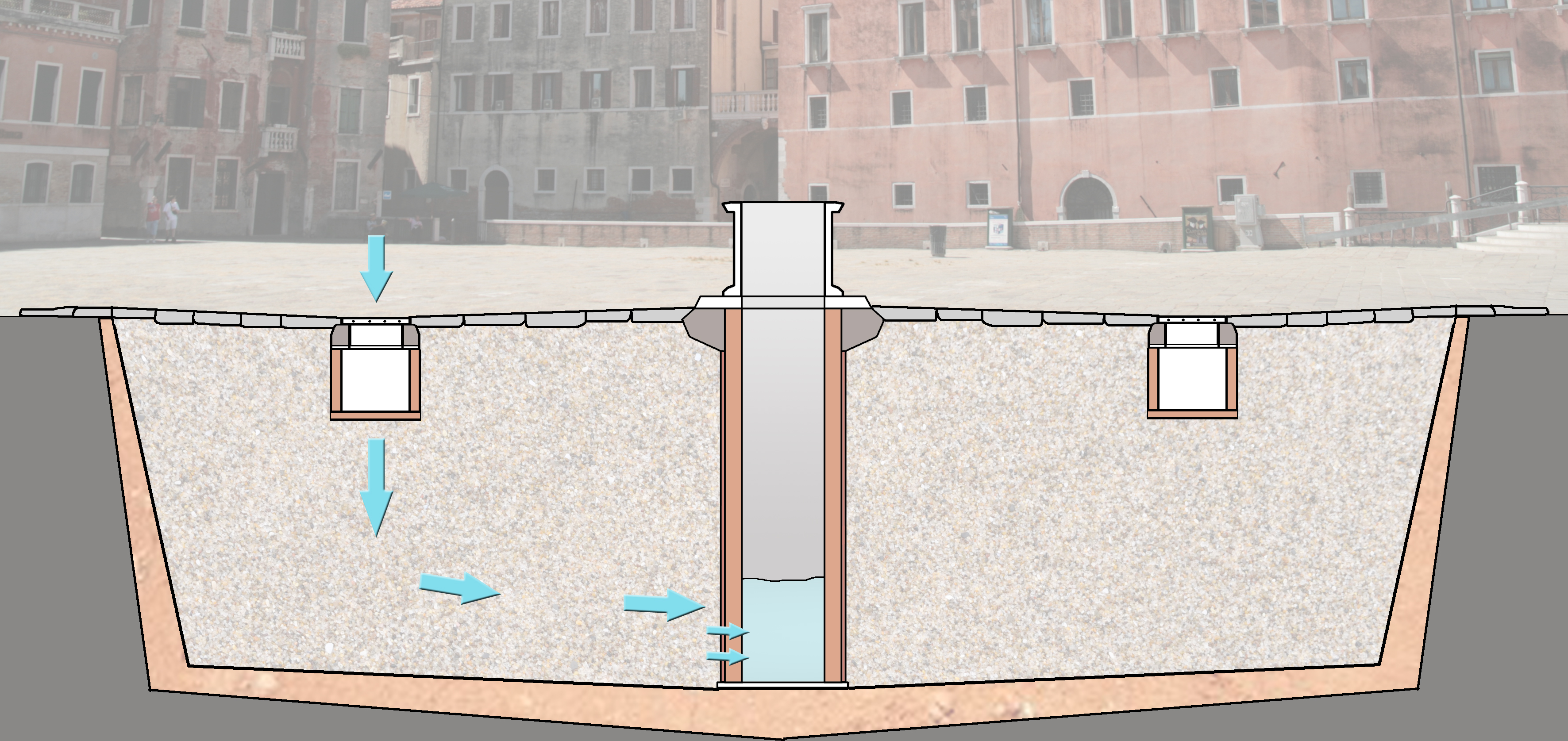 Venetian water well system.